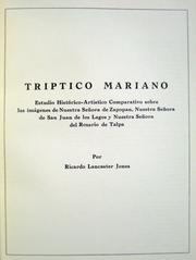 Cover of the book "Tríptico Mariano" (second edition) by Ricardo Lancaster-Jones y Verea.